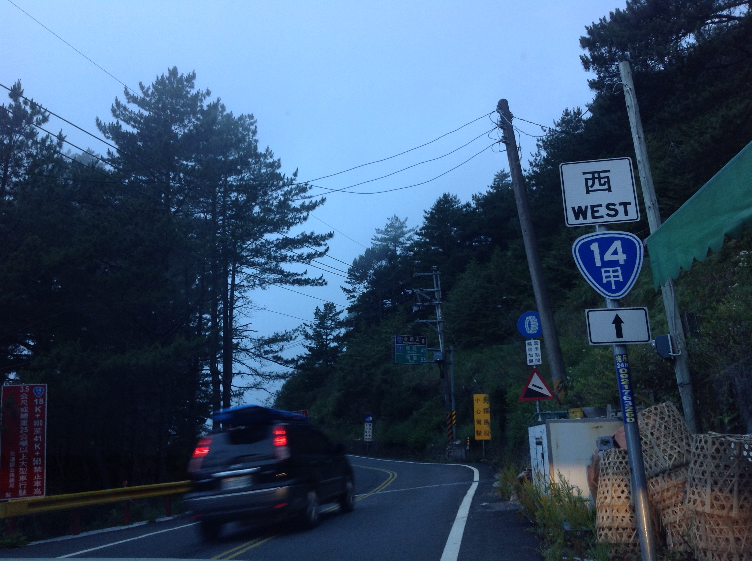 End of Taiwan Provincial Highway No.14-1 (Opposite Direction)